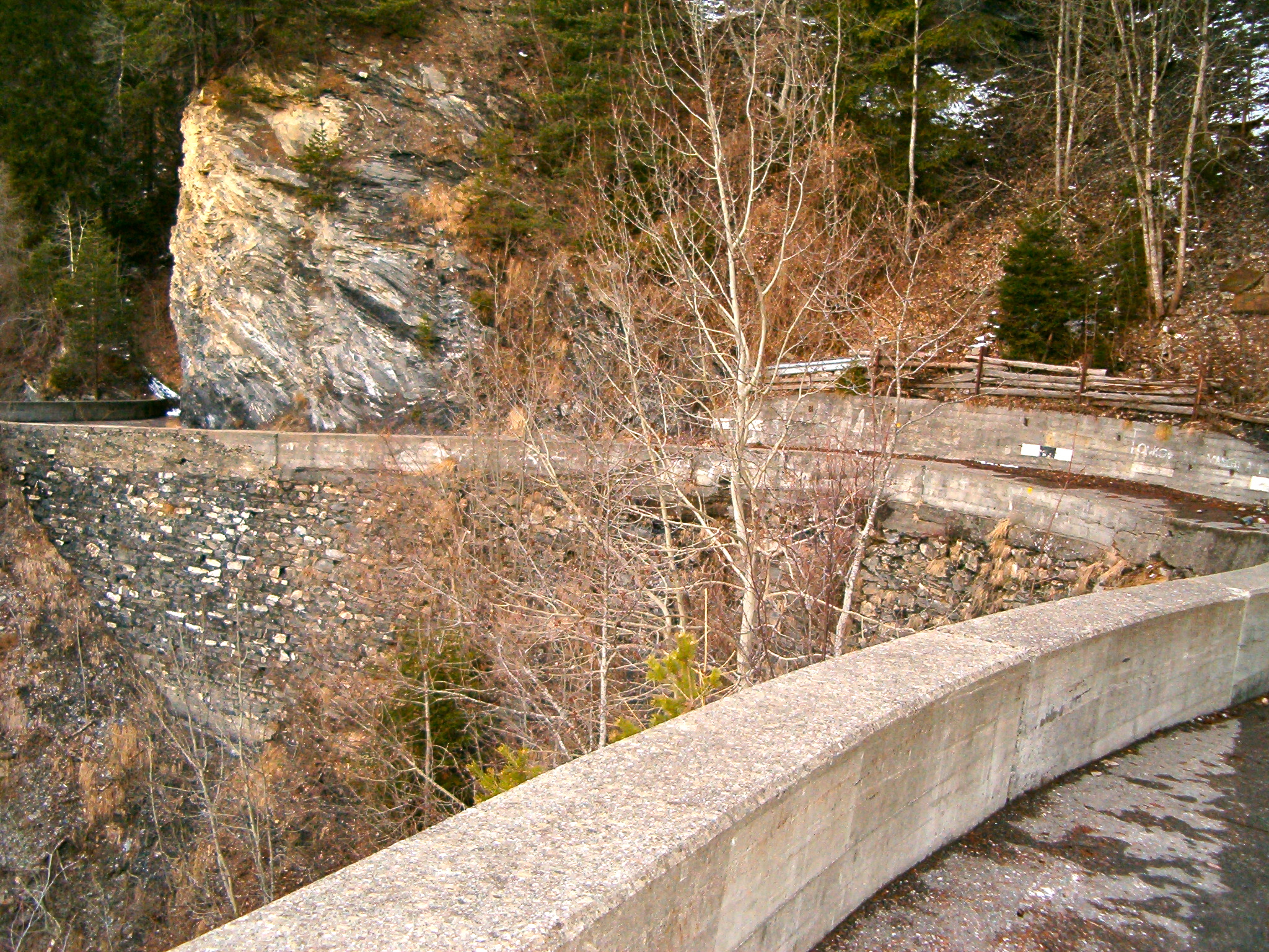 Castielertobel, old road, Schanfigg/Switzerland